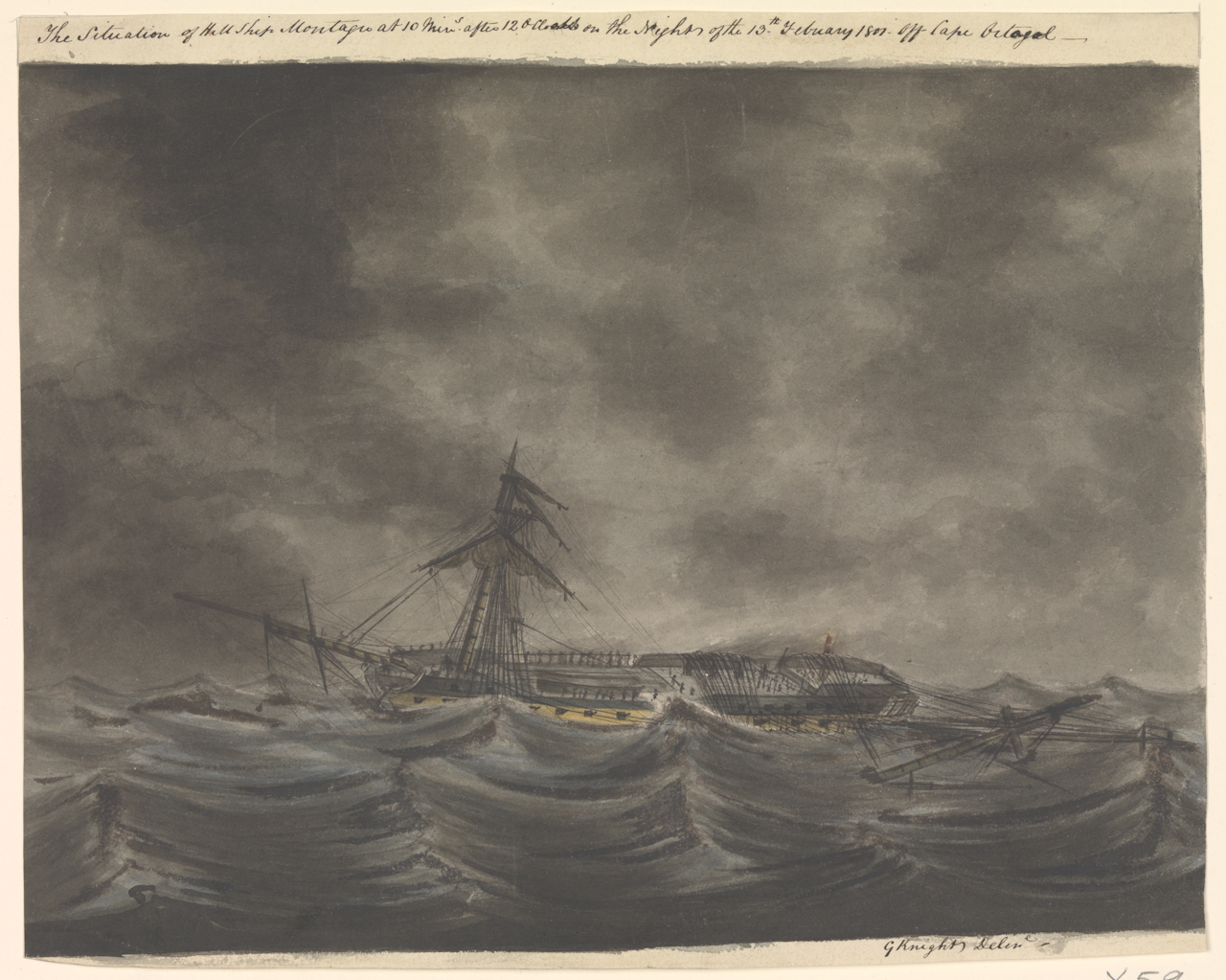 The situation of H.M. Ship Montagu at 10 mins after 12 o'clock on the night of the 13th February 1801 off Cape Ortagol Signed by artist. The situation of H.M. Ship Montagu at 10 mins after 12 o'clock on the night of the 13th February 1801 off Cape Ortagol